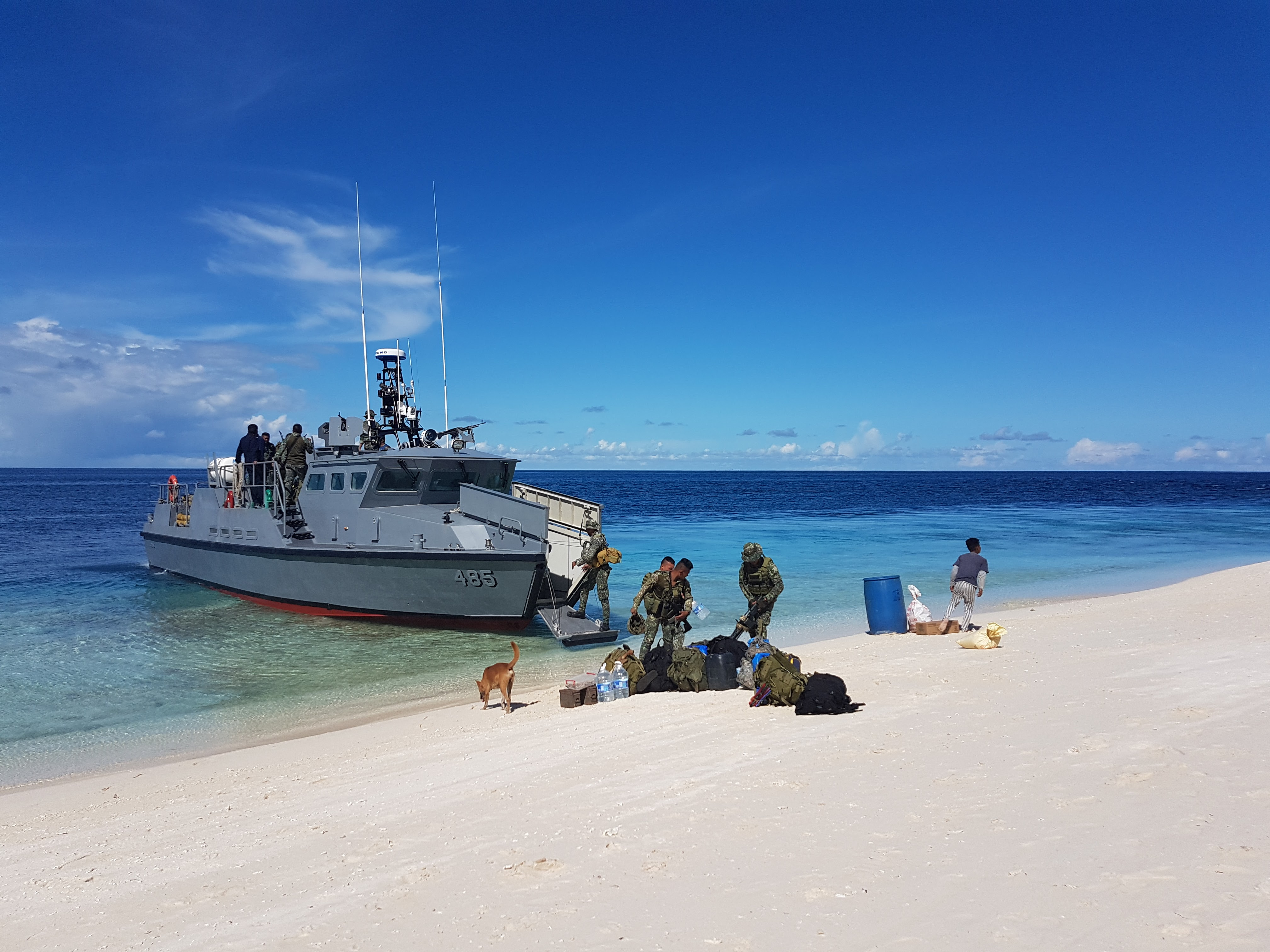 Philippine Navy's Multi-Purpose Attack Craft Mk2 BA-485 docked at Panguan Island of Tawi-Tawi province for a mapping, reconnaissance and deployment mission of the 10th Marine Battalion Landing Team of the Philippine Marine Corps and Schadow1 Expeditions